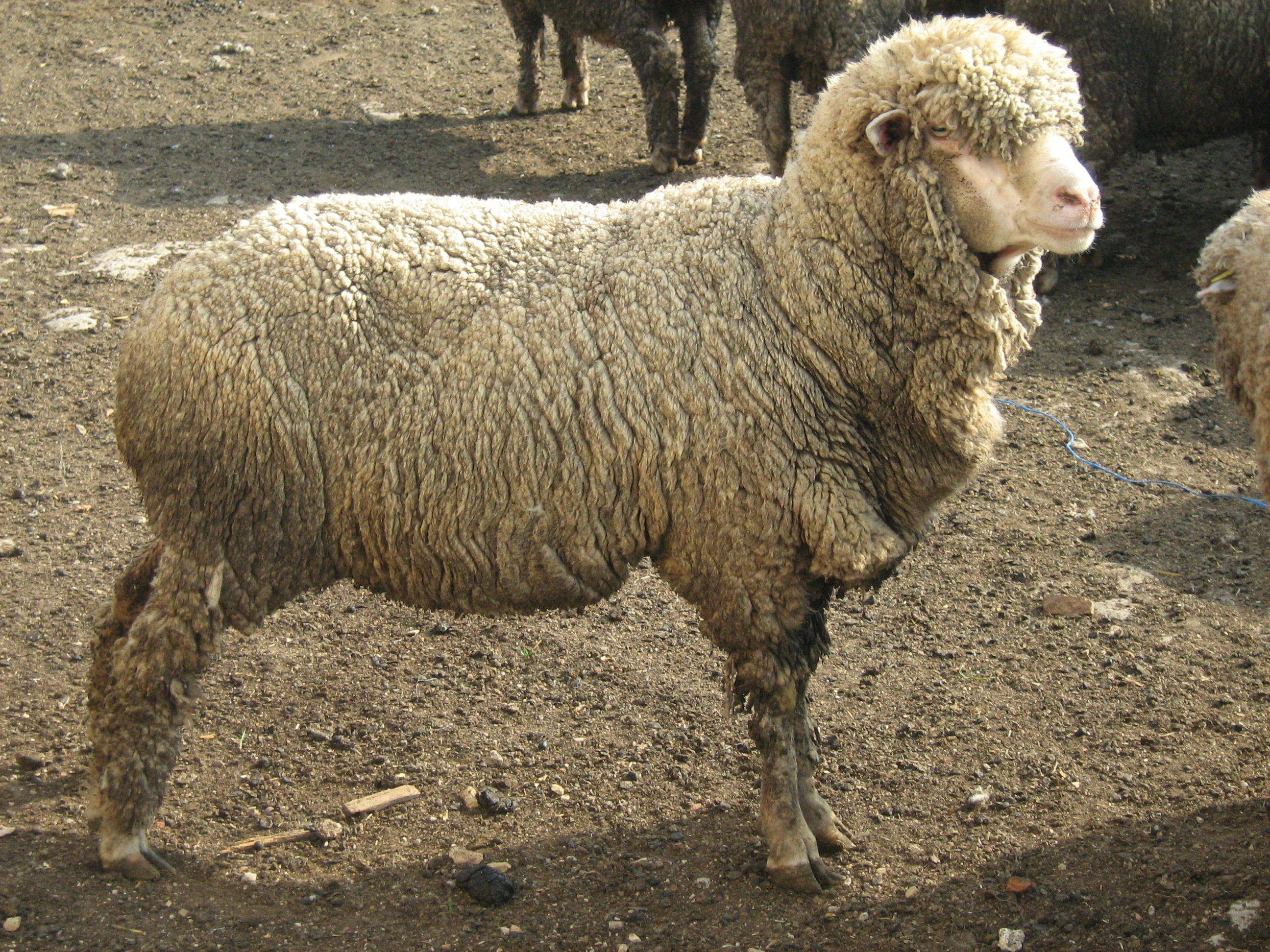 Ascanian sheep